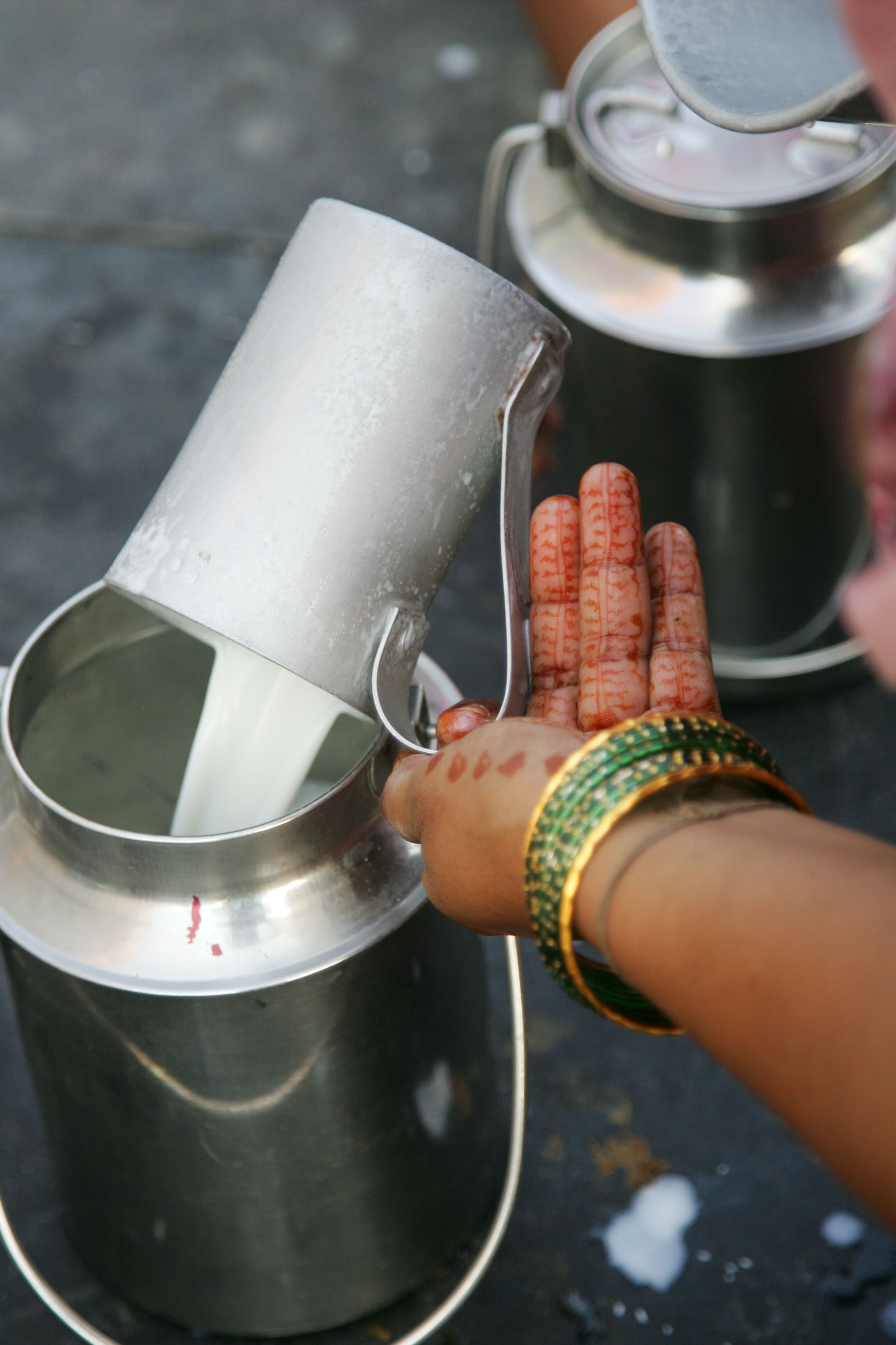 A woman pours buffalo milk into a dairy can at the urban dairy of Anan Thainan, in Ramchandrapuram Village, Andhra Pradesh, India (photo credit: ILRI/Stevie Mann).